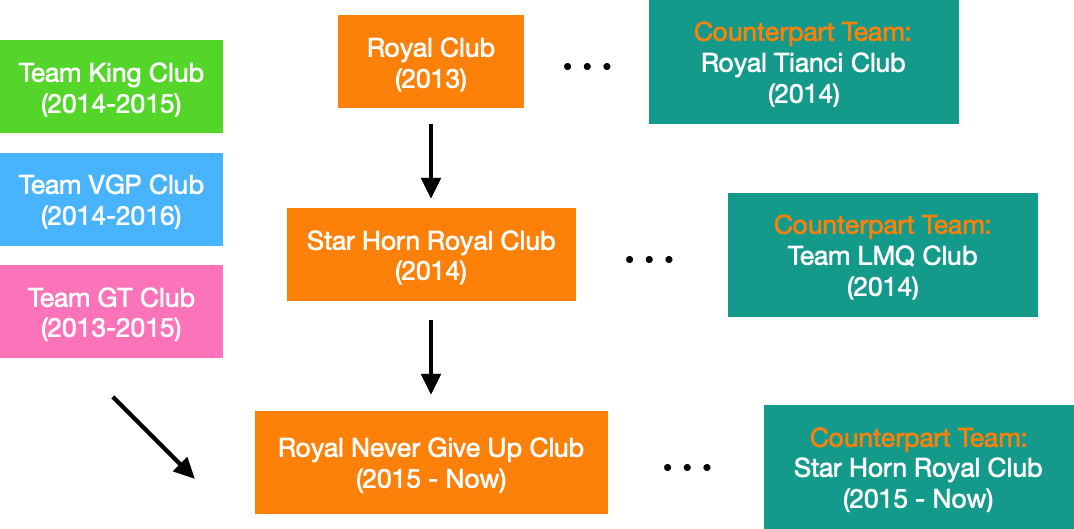 Development of Royal Club